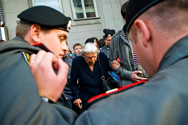 Lyudmila Alexeyeva. Dissenters March, Moscow, Russia, 2009.